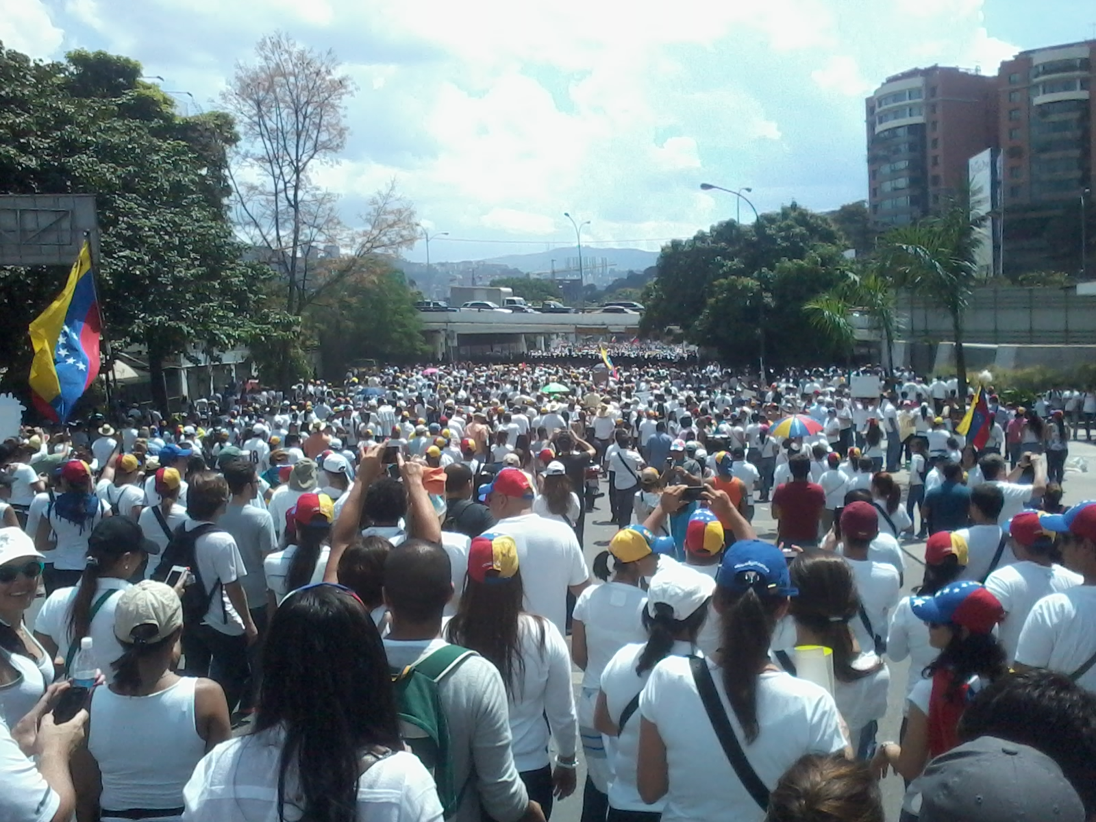 An opposition rally shortly after Leopolo López turned himself in, in Las Mercedes, Caracas. Afterwards, the rally blocked the Francisco Fajardo Highway.